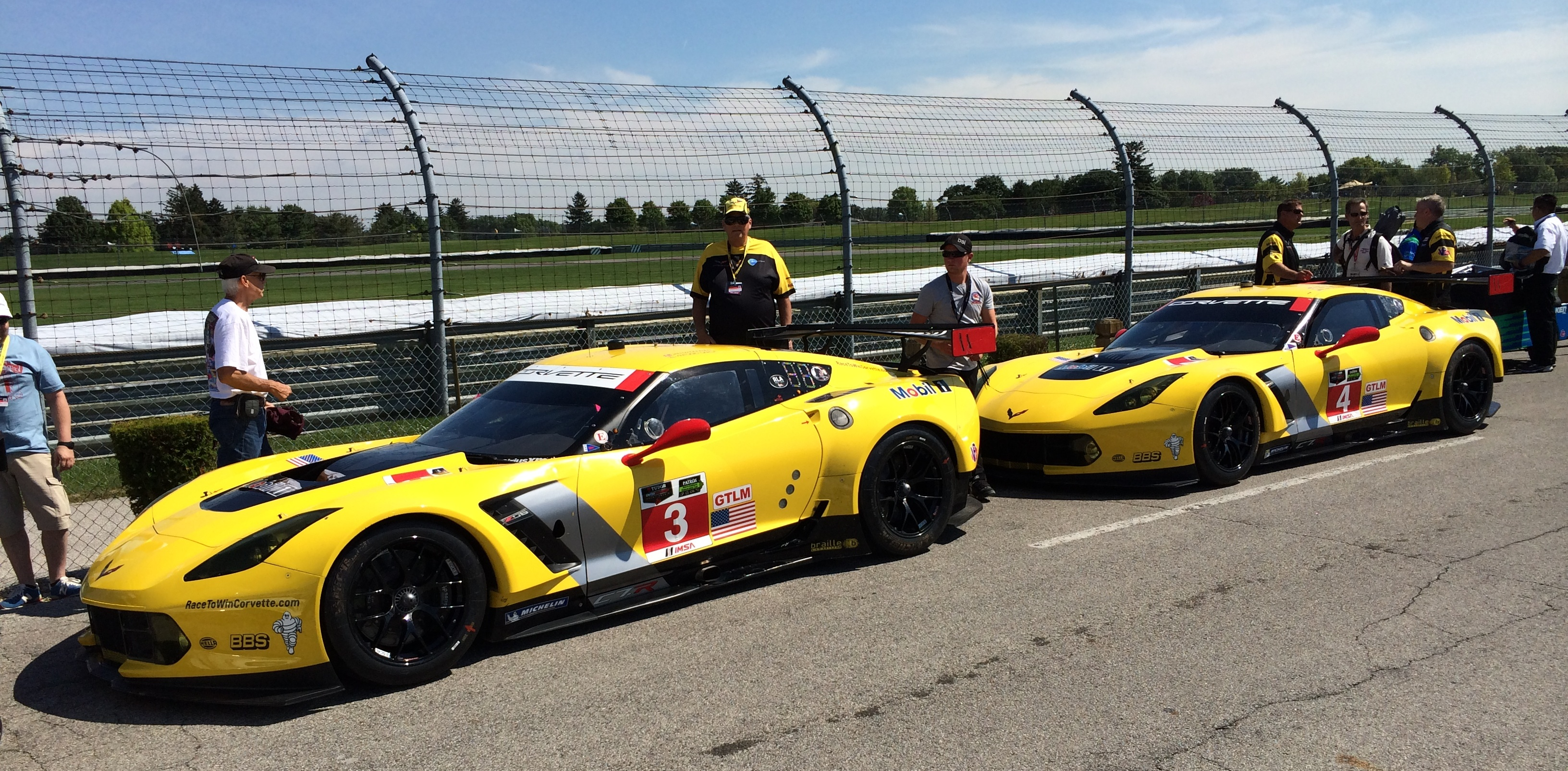 Photo that I took of Corvette Racing Chassis C7RGT-002 (race number 4) and C7RGT-003 (race number 3) ready for practice at the Indianapolis International Motor Sports Association July 25, 2014 event.